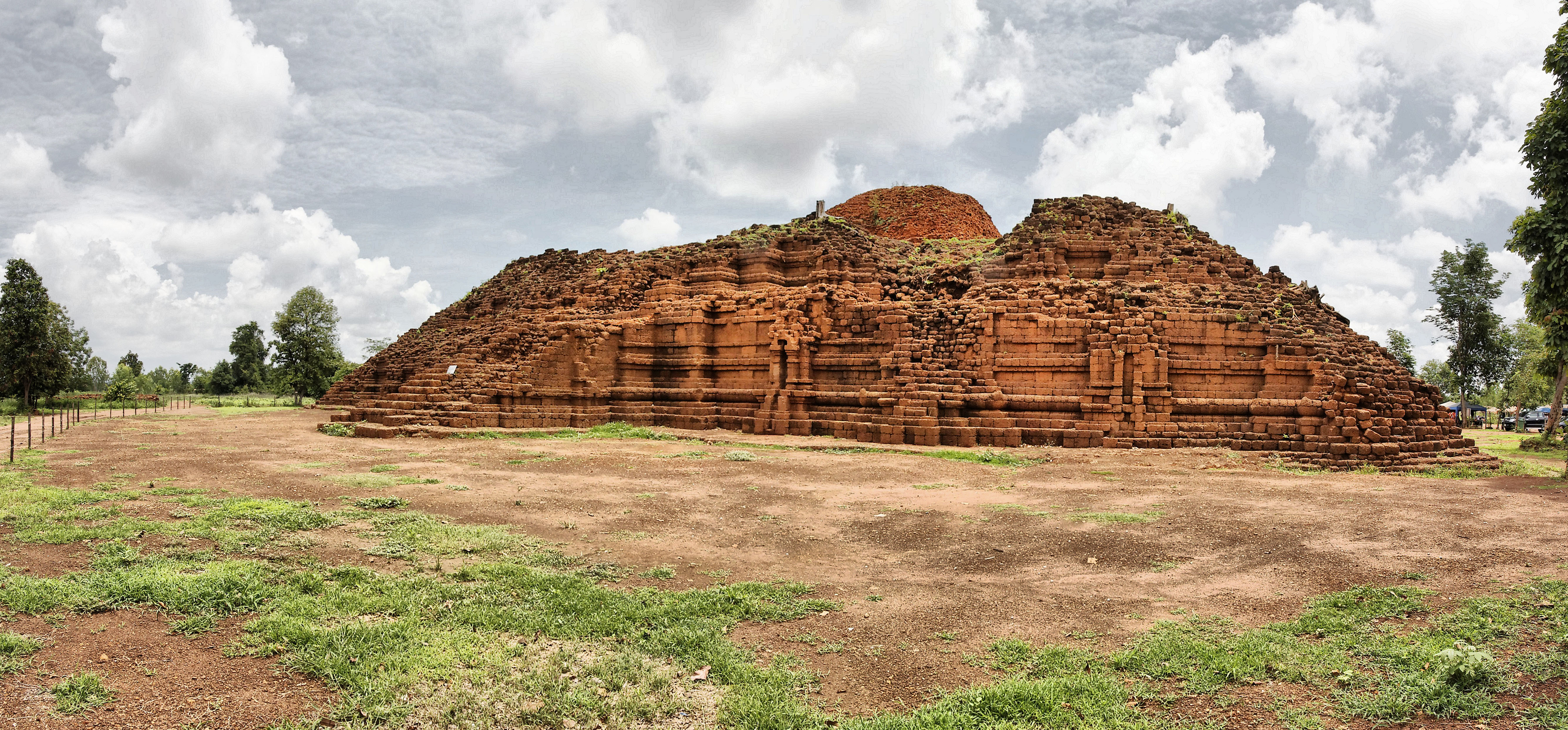 Khao Khlang Nok, Si Thep Historical Park, Si Thep District, Phetchabun Province, Thailand